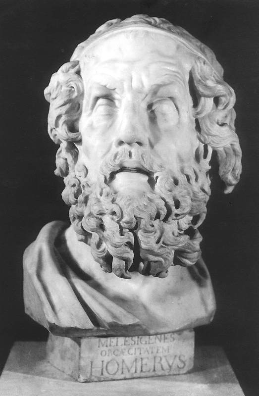 Marble bust of Homer, height 46,5 cm (incl. 6 for the pedestal) at the Academy of Sciences, Lyon